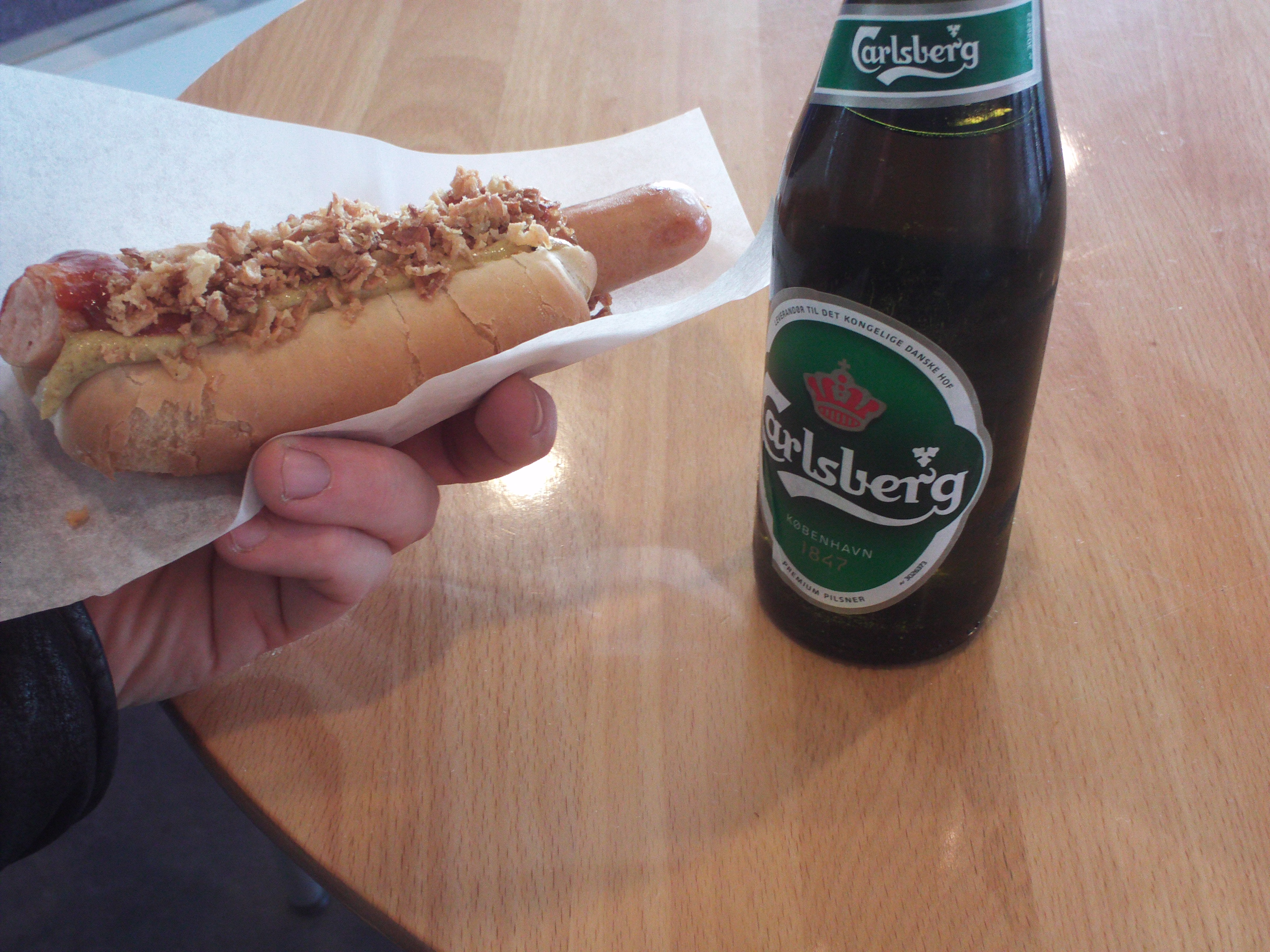 Typical Danish "street food" — hot dog with topped with deep fried onion and a beer at Copenhagen airport